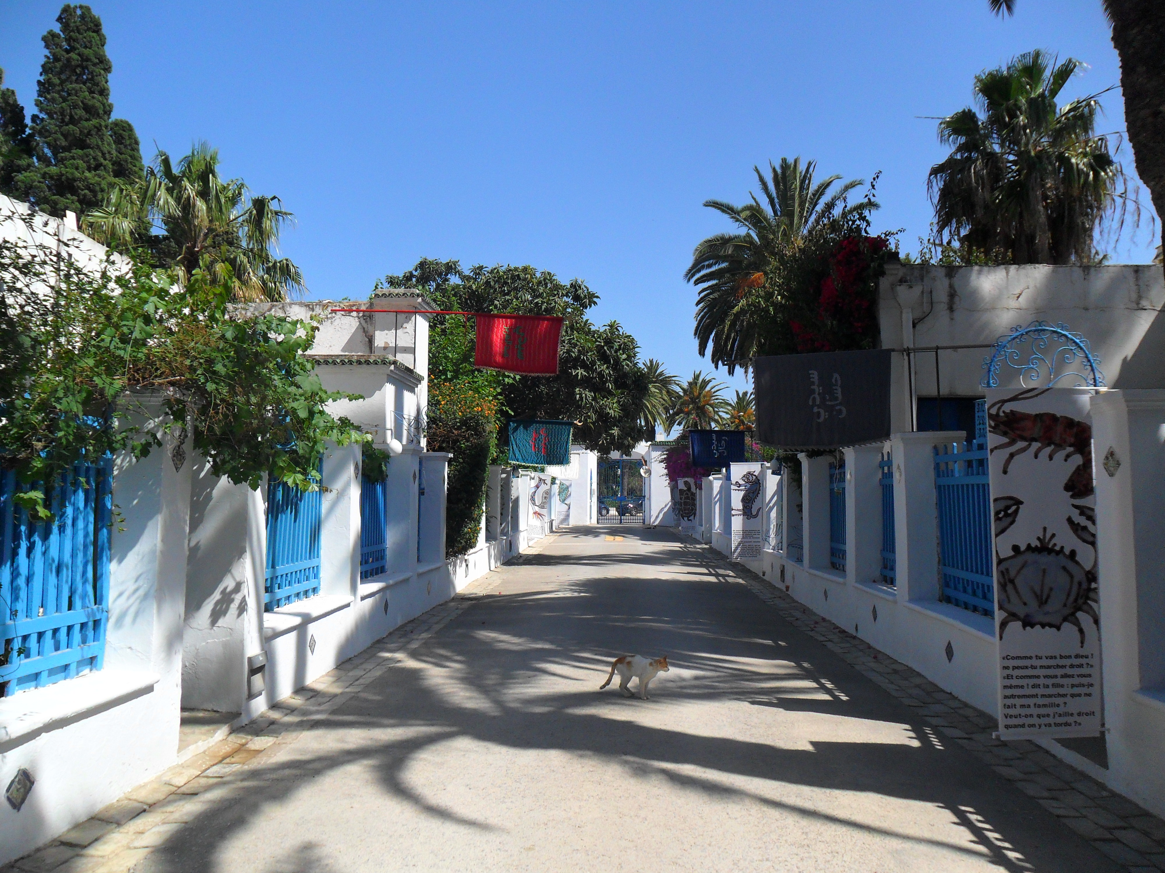 French Ambassador residence in Tunisia, "Dar El Kamla", La Marsa